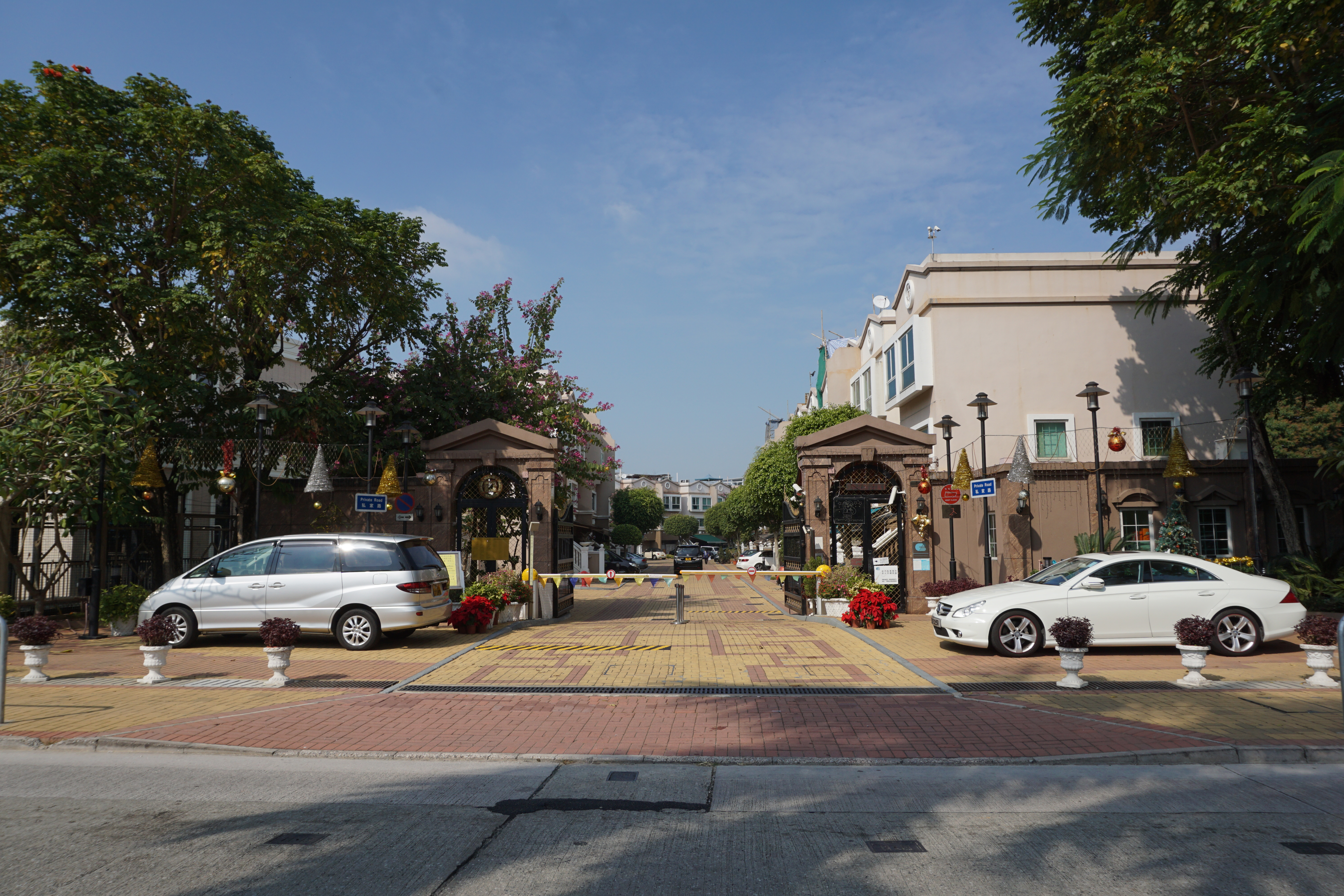 Seasons Palace in Kam Tin, Hong Kong.